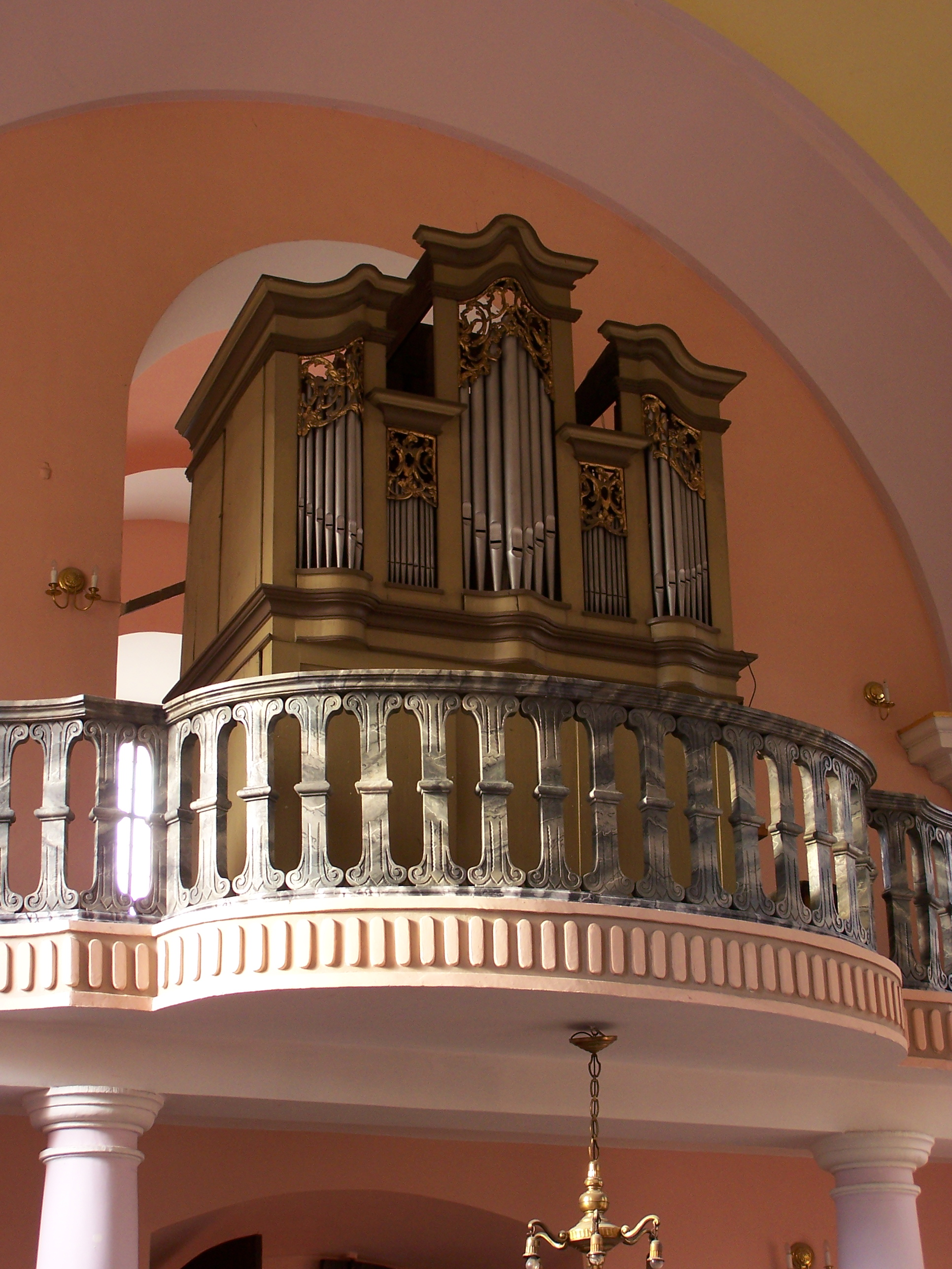 Organs in church of Our Lady of Lourdes in Kochłowice, district of Ruda Śląska (Poland).